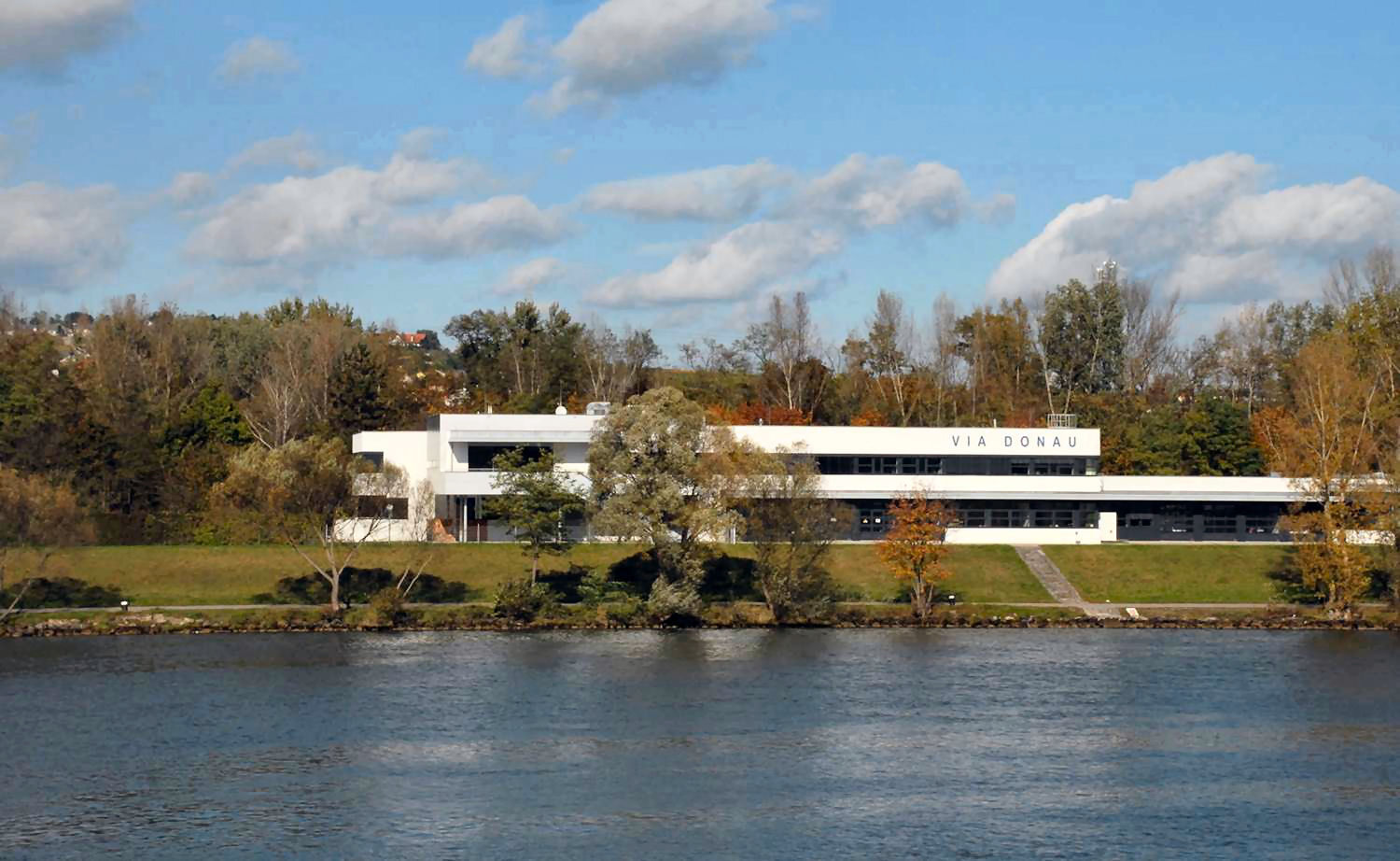 viadonau Building in Austria.